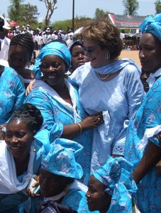 Molly Melching of Tostan in 2007 in Malicounda Bambara, Senegal, celebrating the 10th anniversary of the village's abandonment of female genital mutilation.